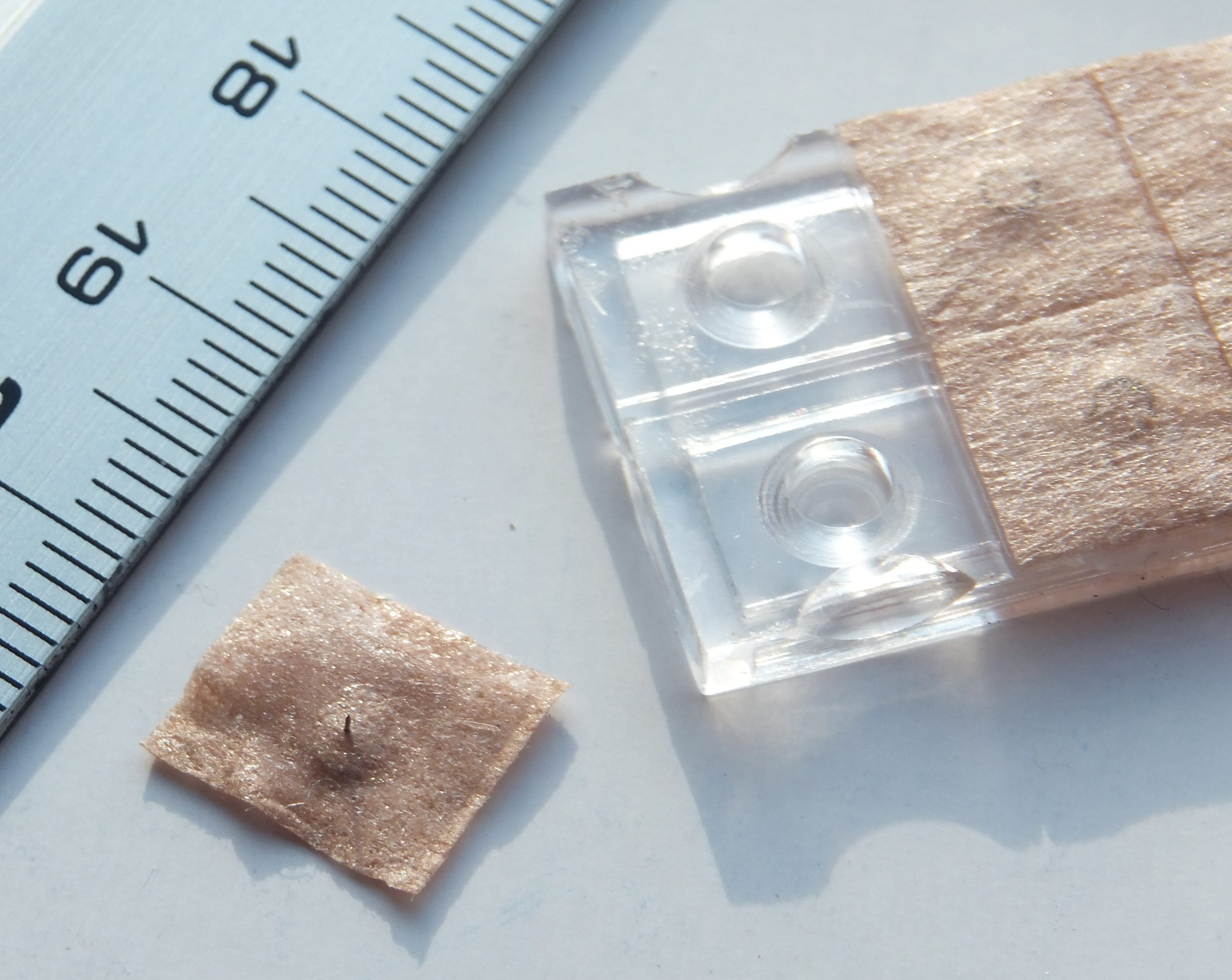 Intradermal needle (Hinaishin) for acupuncture developped by the Japanese physician Akabane Kōbei in mid-twentieth century